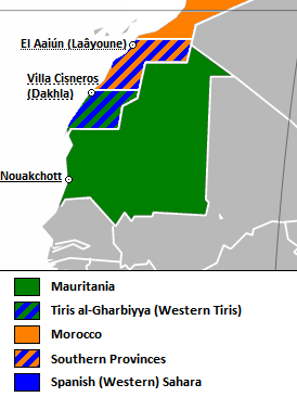 Western Tiris on the map with Morocco and Mauritania Note: Published without source